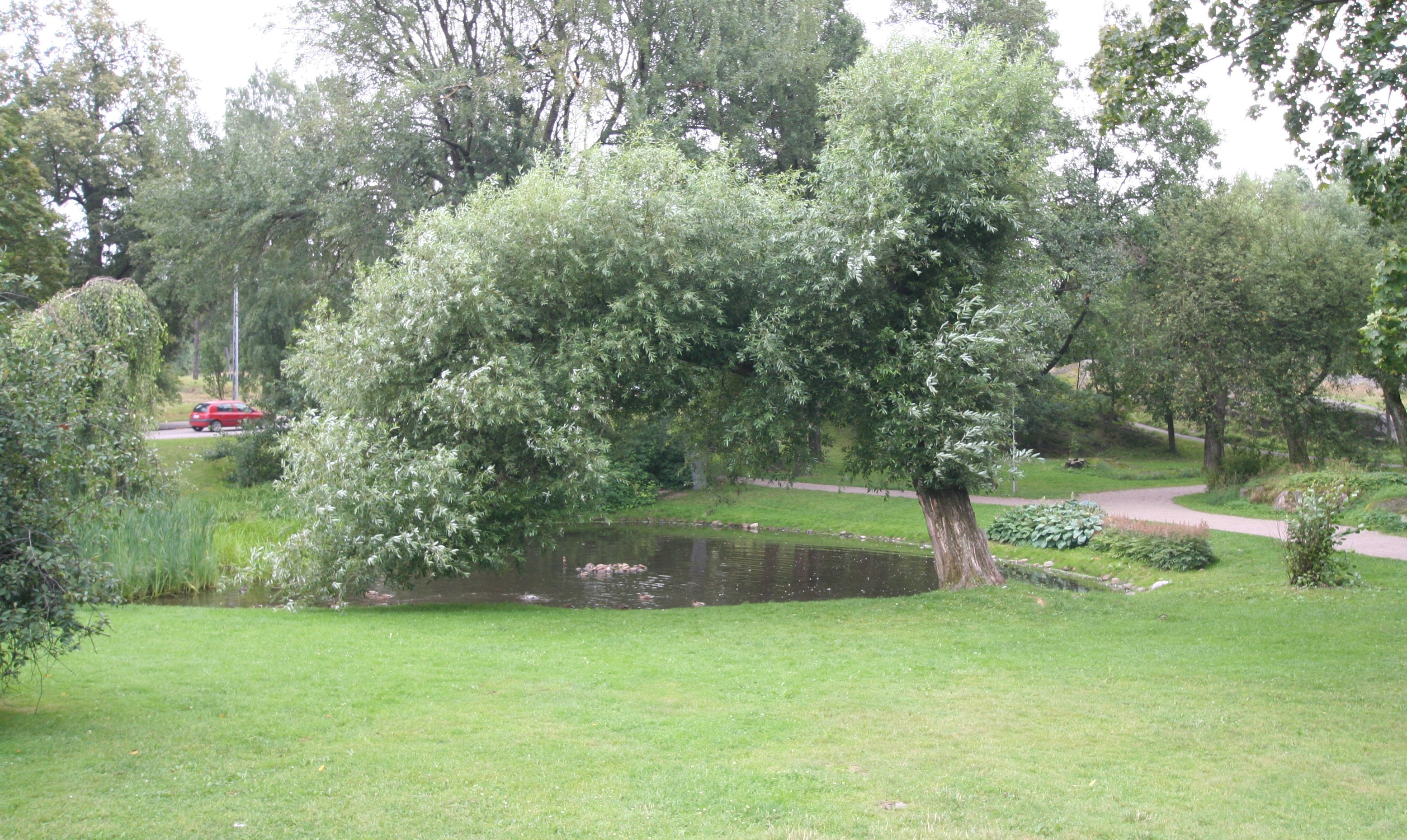 Sibelius Park Helsinki